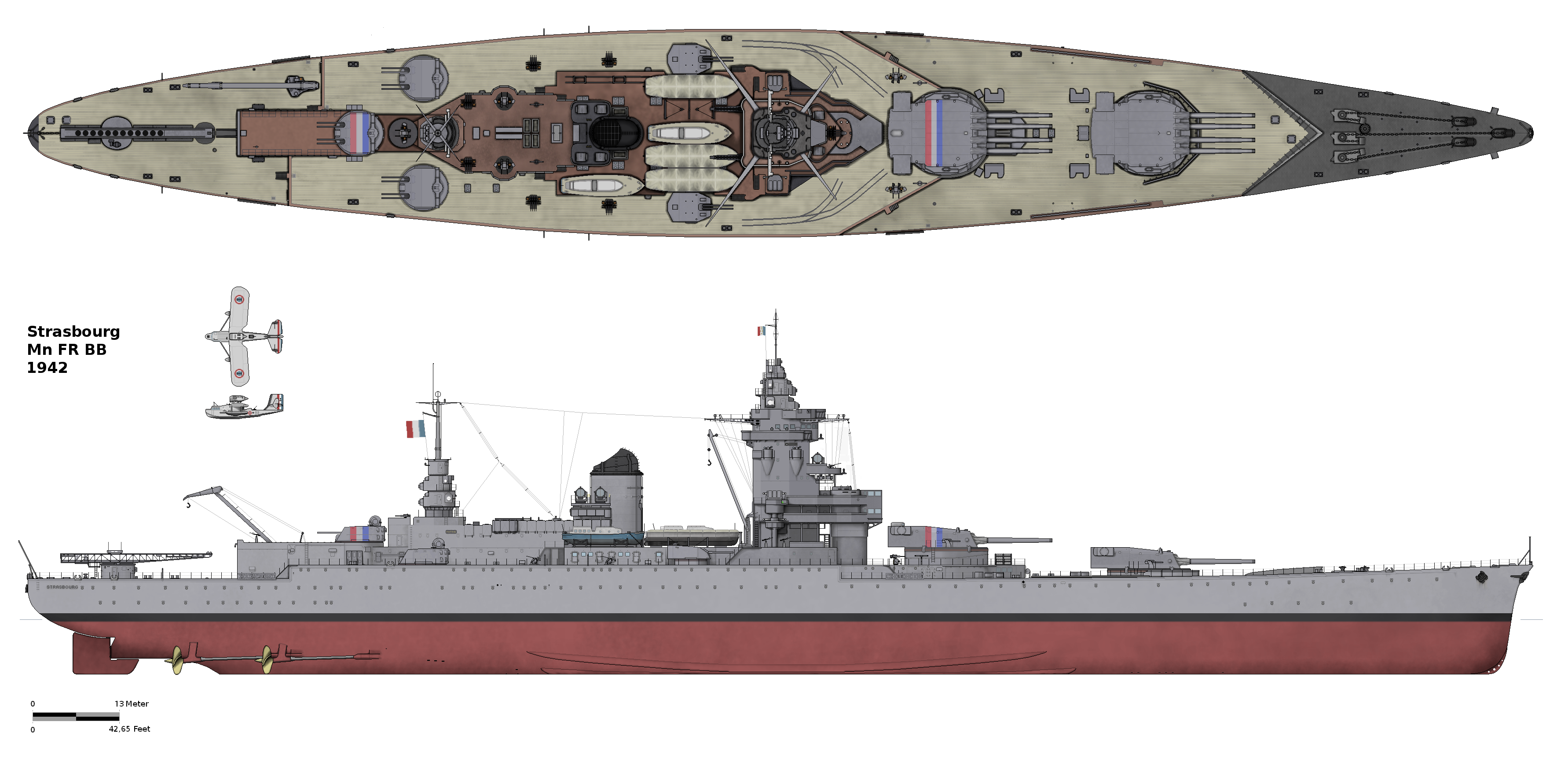 2-view drawing of the french navy battleship Strasbourg, showing her configuration and color after her refit in 4/1942.